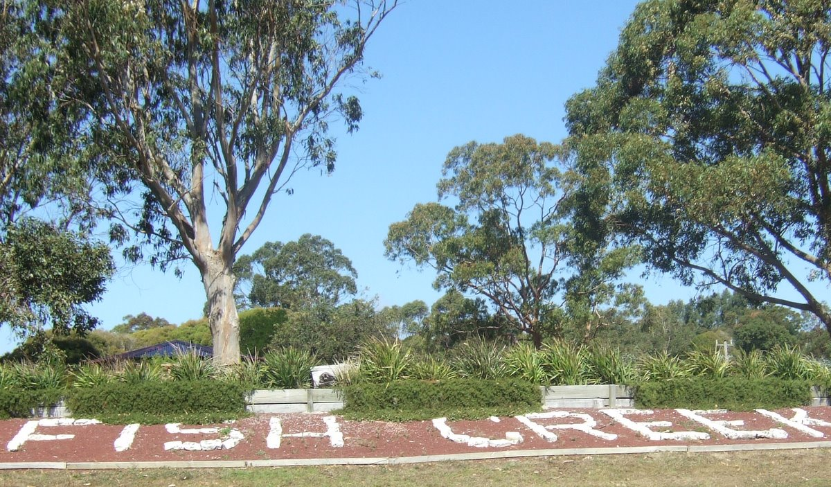 A large mosaic spelling out Fish Creek in the town of Fish Creek, Victoria. By Stevage.